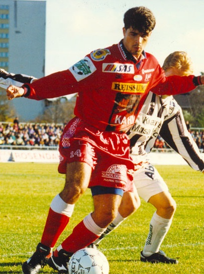 Brazilian footballer Luiz Antonio in Finnish Veikkausliiga 1996, FC Jazz vs TPS.